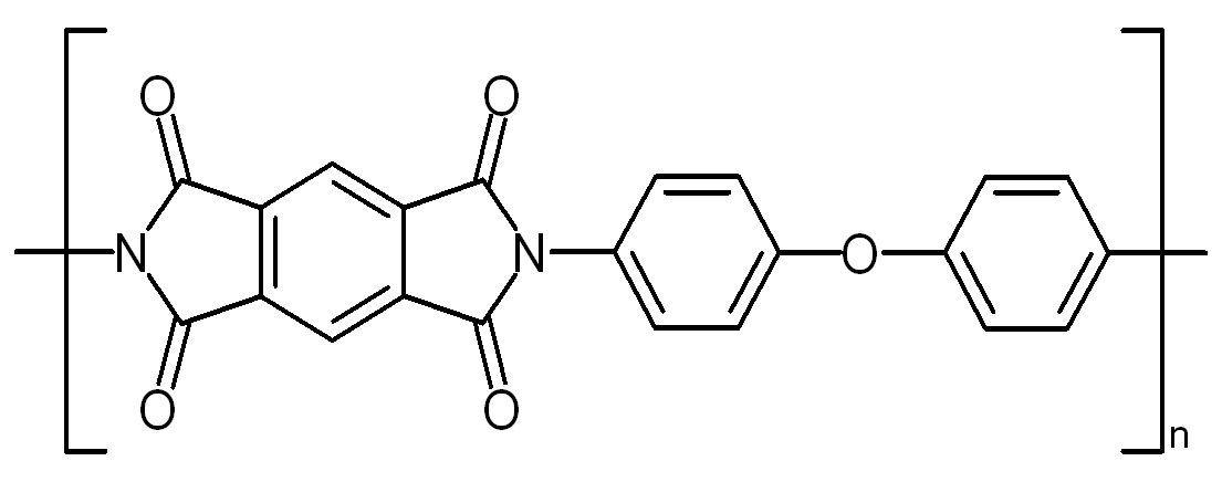 poly-oxydiphenylene-pyromellitimide